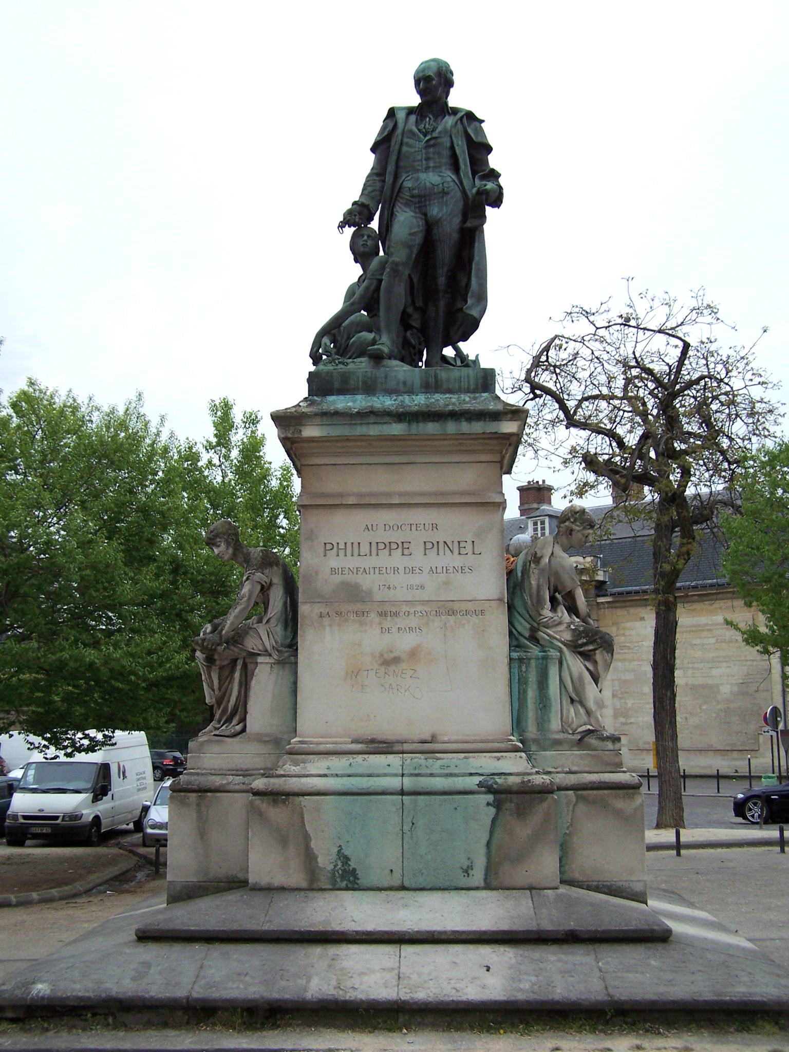 Statue of the french psychiatrist Philippe Pinel in front of the entrance of the Hôpital de la Salpêtrière in Paris, France. Sculptor Ludovic Durand, bronze, 1879